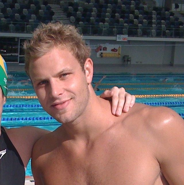 Lauterstein at MSAC